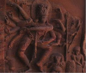 taken during a trip to Badami ja:画像:Badami-shiva.jpg